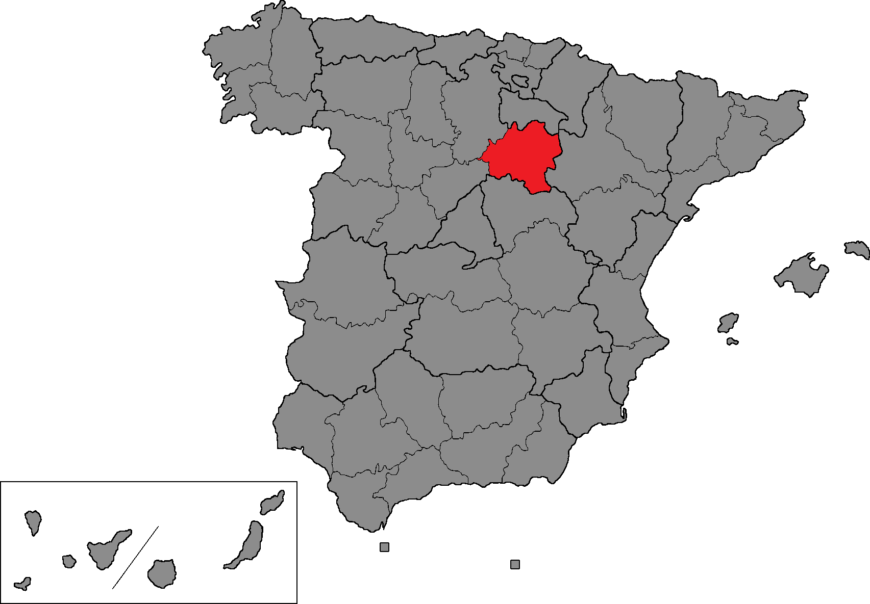 Spanish Congress of Deputies district of Soria.